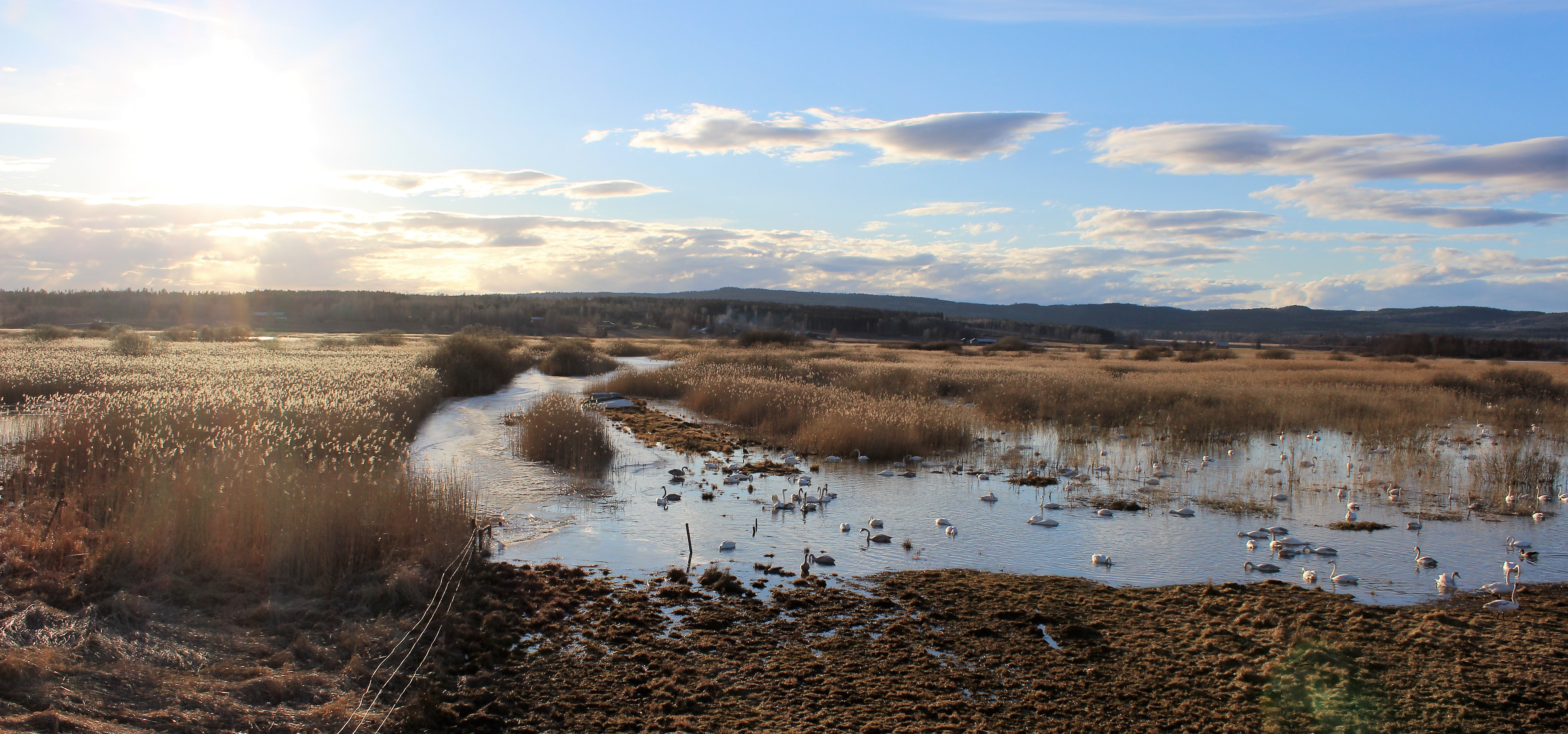 Lake Tysslingen with whooper swans (Cygnus cygnus) and greylag geese (Anser anser), in Örebro, Sweden.